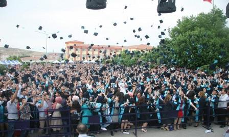 Kilis 7 Aralık University Graduation Ceremony 2013